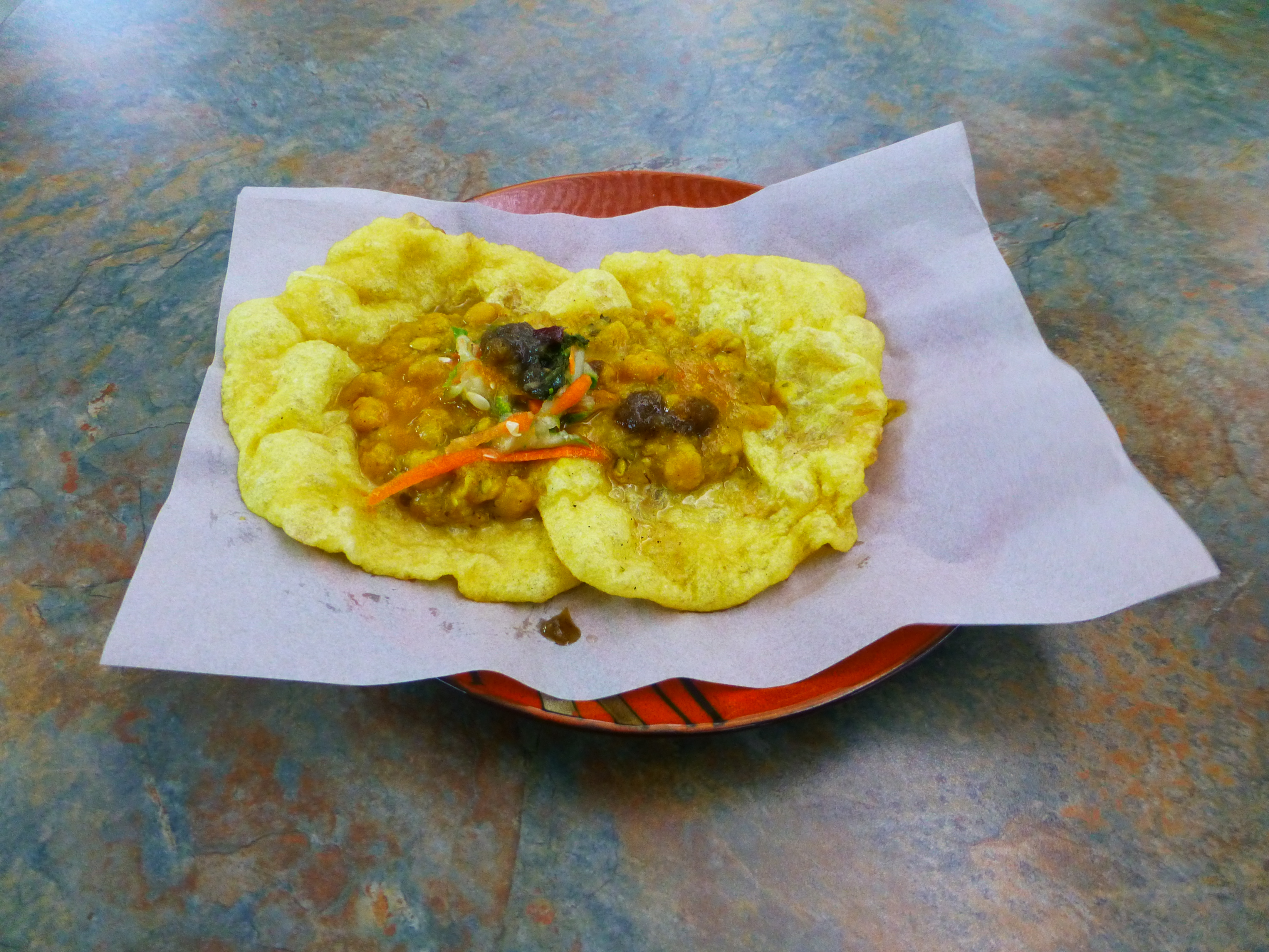 Doubles. Food court in a mall in Frederick Street, Port of Spain, Trinidad.